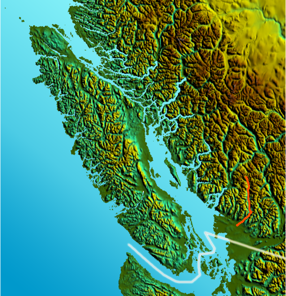 based on 578px-Vancouver_Island-relief.png which is in Wikimedia Commons